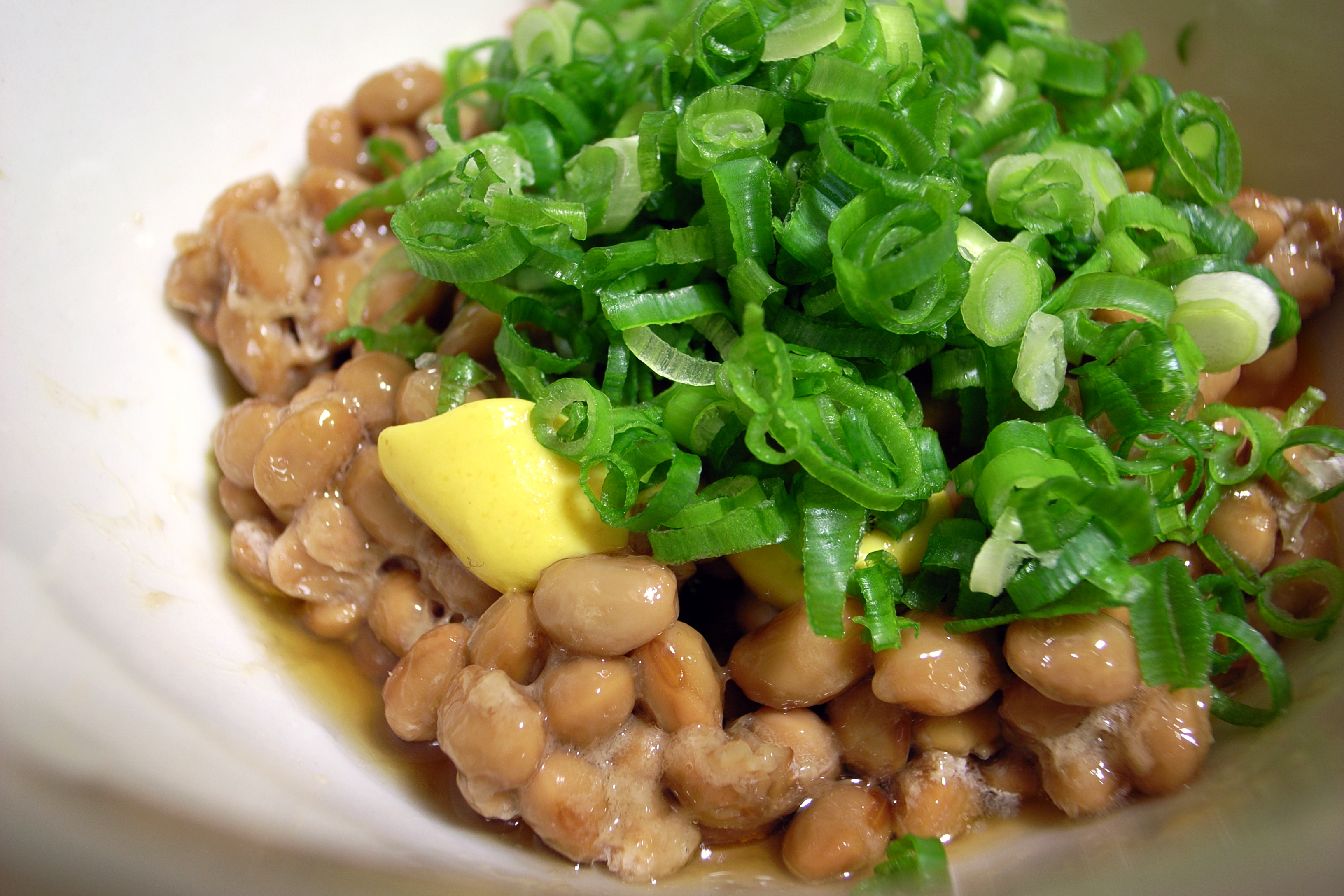 Natto, with welsh onion and karashi. top, green ring-cut leafs are Naganegi (Welsh onion) middle, yellow pastes are Karashi (Japanese mustard) bottom, brown beans are Nattō (fermented soybeans, stirred and moisten with soy sauce or tare sauce (including Japanese soup stock))おれのダイエット食(1)